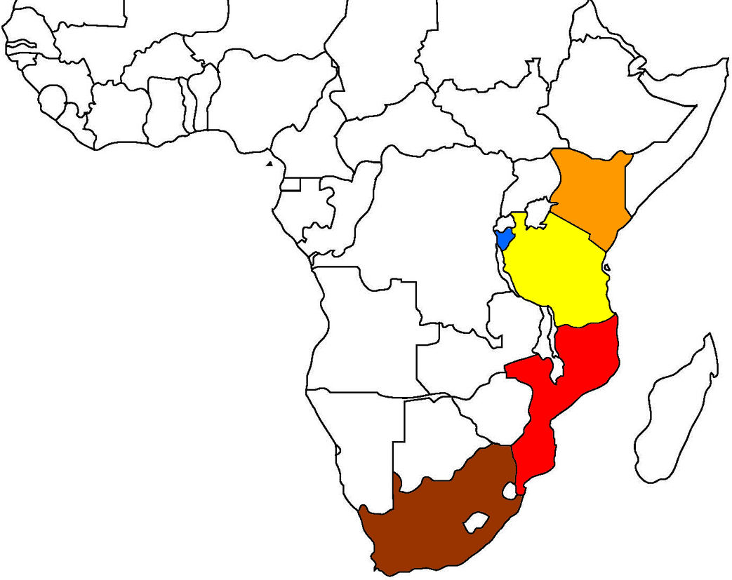 Landlocked Burundi is shown in blue. Its possible routes were either a) dependent on infrastructure of transit neighbour (Tanzania: orange) b) dependent on political relations with transit neighbour (Kenya: yellow) or c) dependent on internal stability of transit neighbour (Mozambique: Red). When all three routes were out of option, it had to rely on the port of Durban in South Africa (brown), reflecting the true traditional geographic notion of being landlocked burdened.